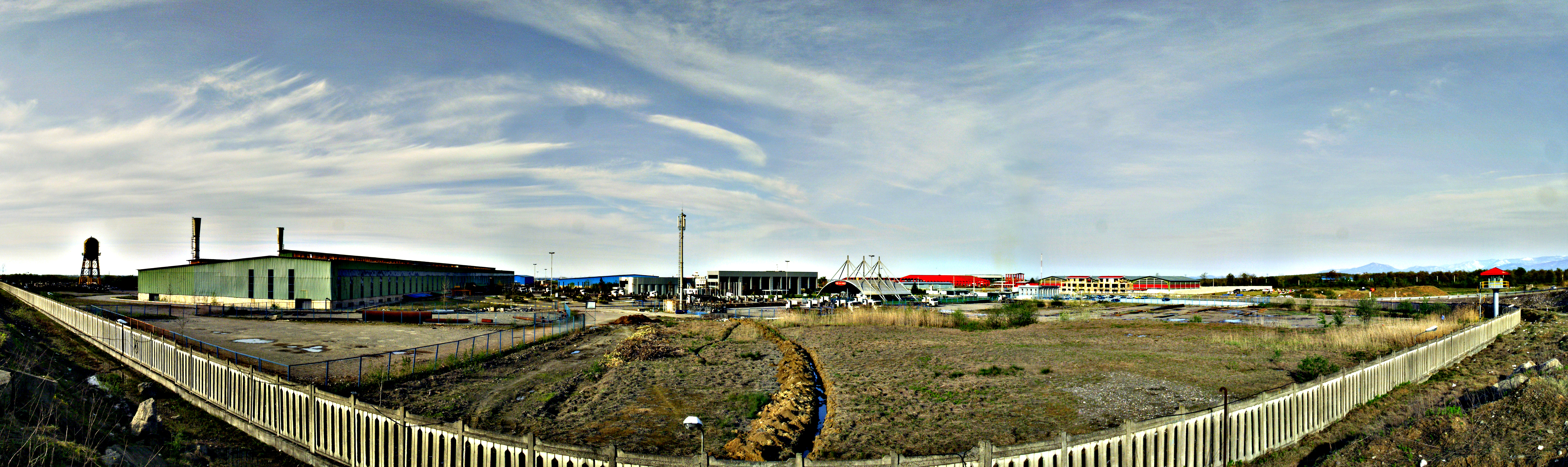 Rasht Industrial City one of five biggest Industrial Cities in Iran